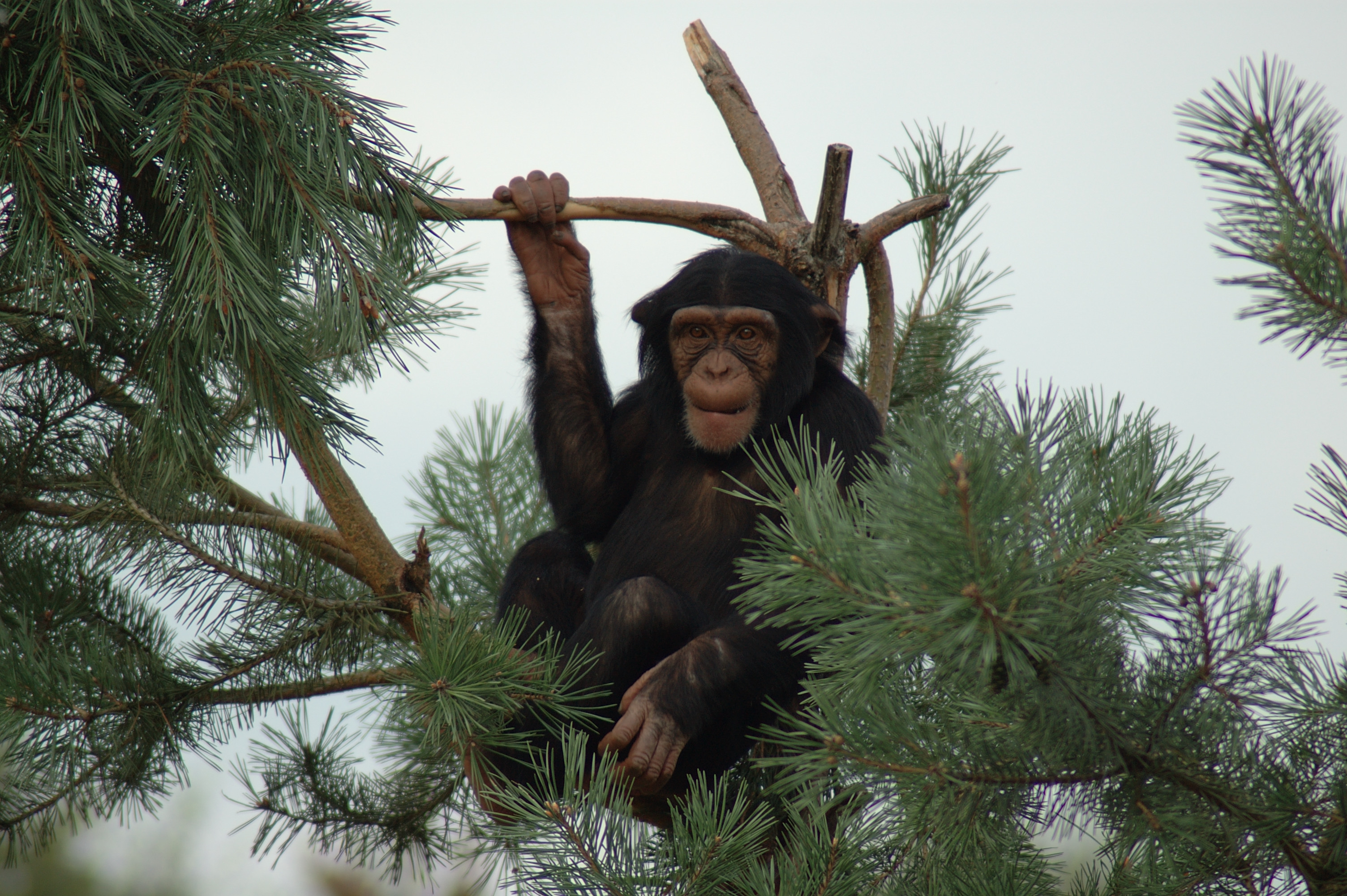 Chimpanzee / Chimpanzé (Pan troglodytes)